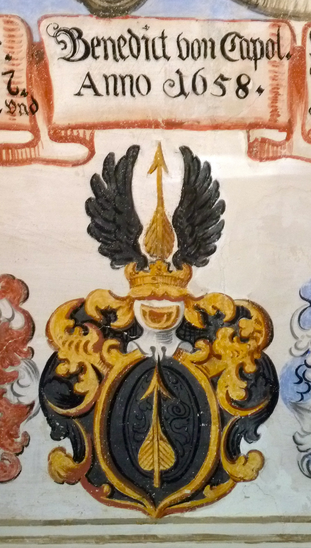 Cuort Ligia Grischa Wappen Capol